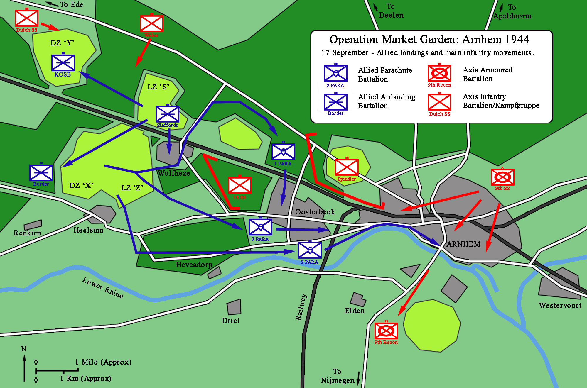 First infantry movements in the battle of Arnhem - Day 1, 17 September 1944